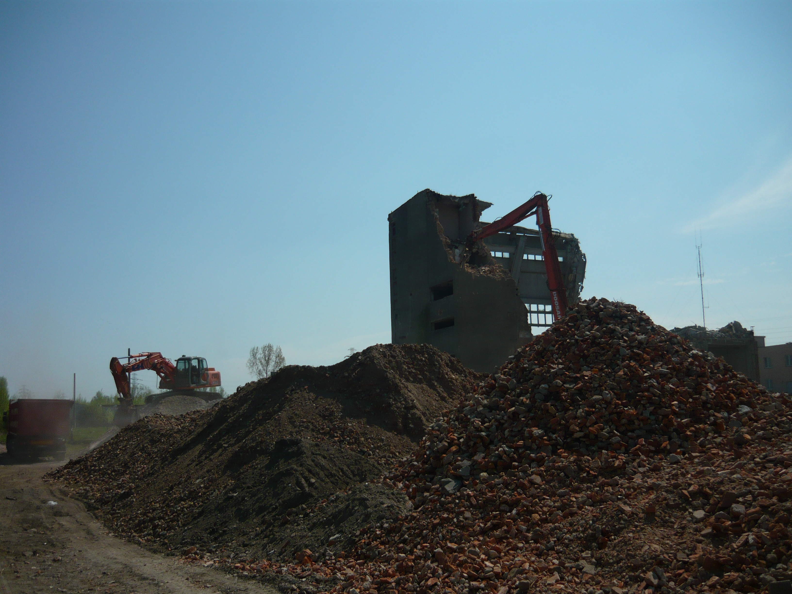 Knocking down of Cellulose factory, named of Julian Marchlewski in Włocławek.